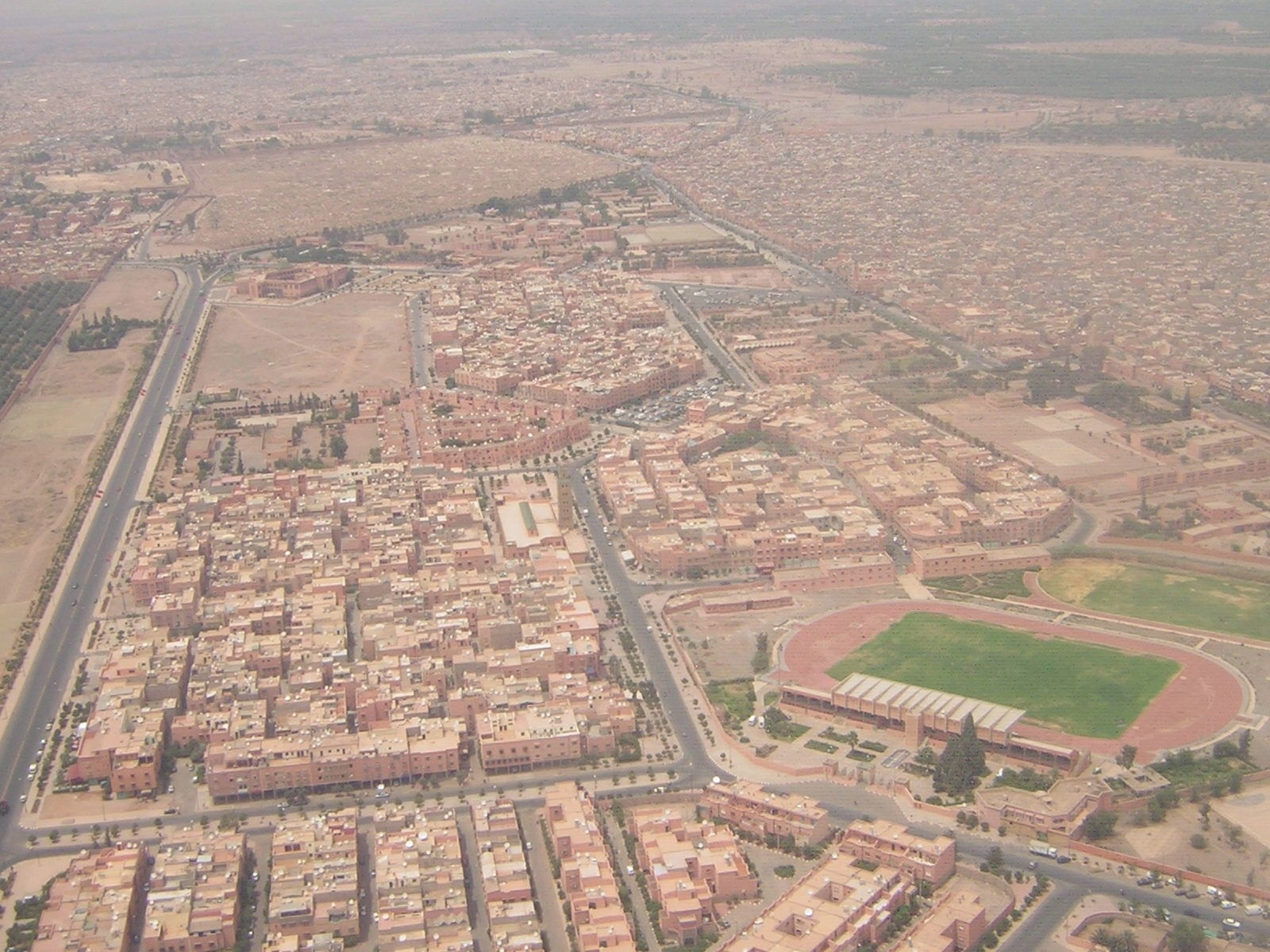 Northward looking aerial view of the Sidi Youssef Ben Ali neighbourhood, separated from the Agdal Gardens by the Agdal Avenue.